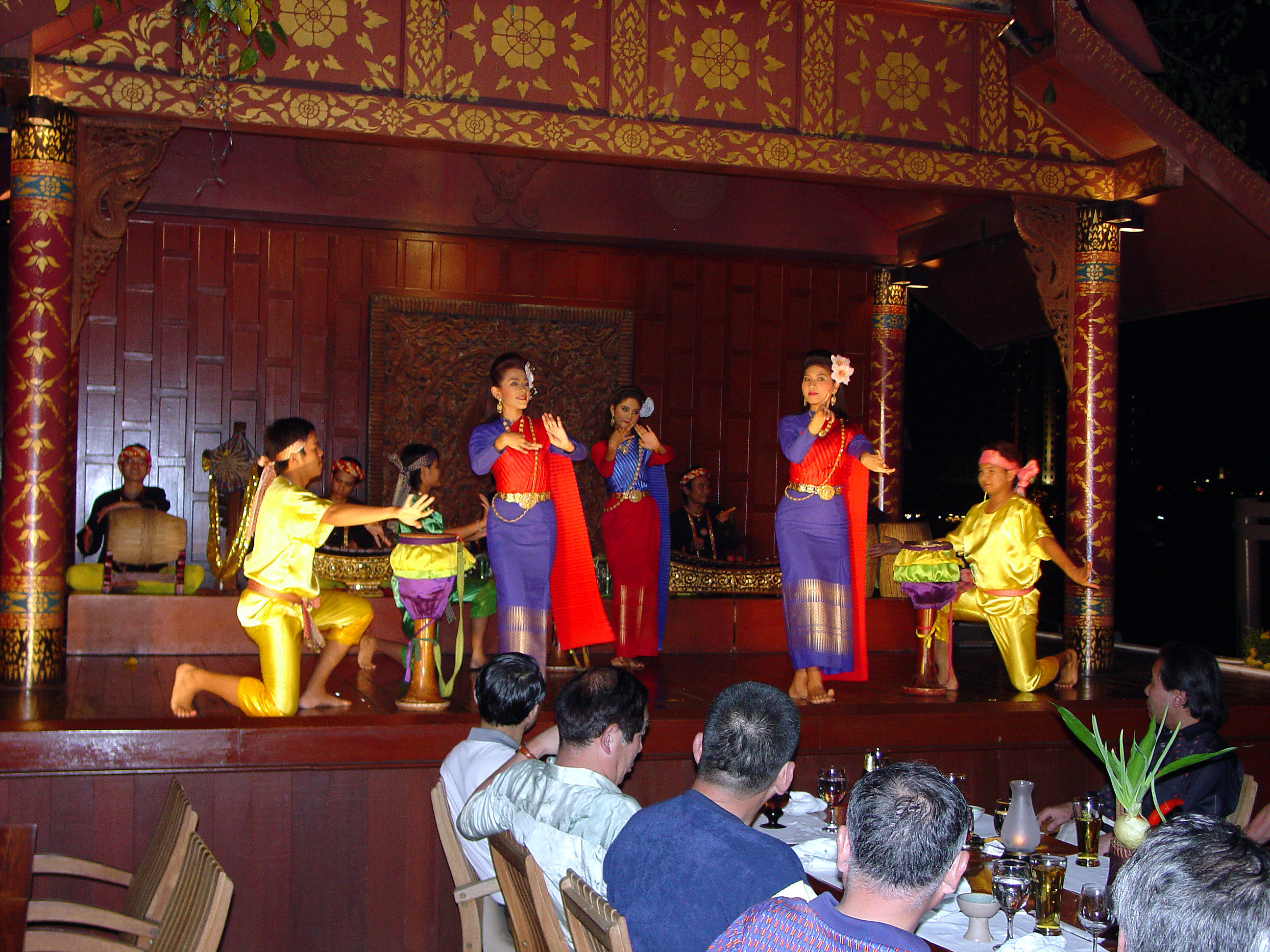 Dancers in traditional costume perform a courtship dance at the Royal Orchid Hotel in Bangkok, 2004.